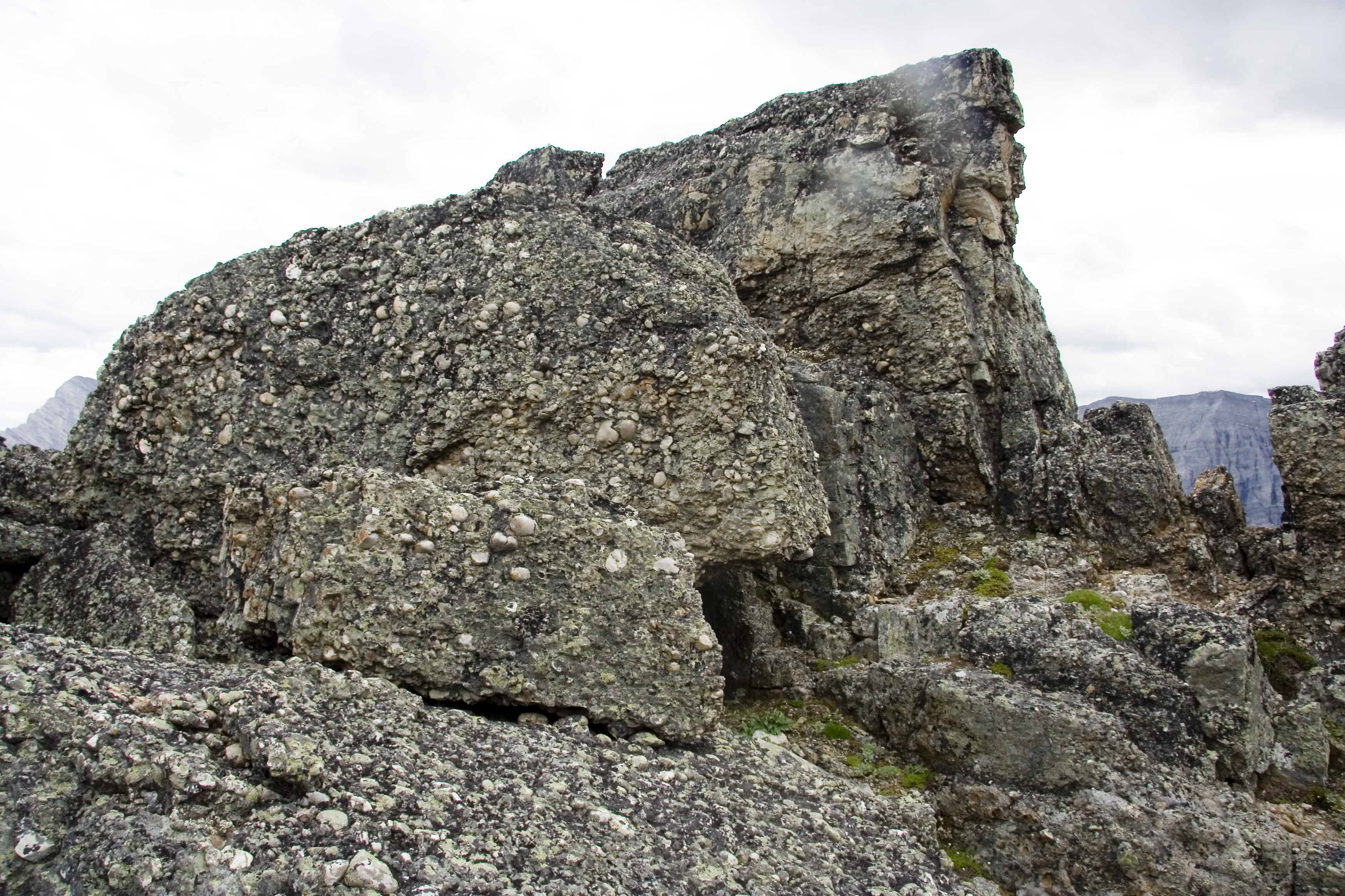 Cadomin Formation outcrops along Mt Allan Centennial Ridge Trail, Kananaskis, Alberta, Canada